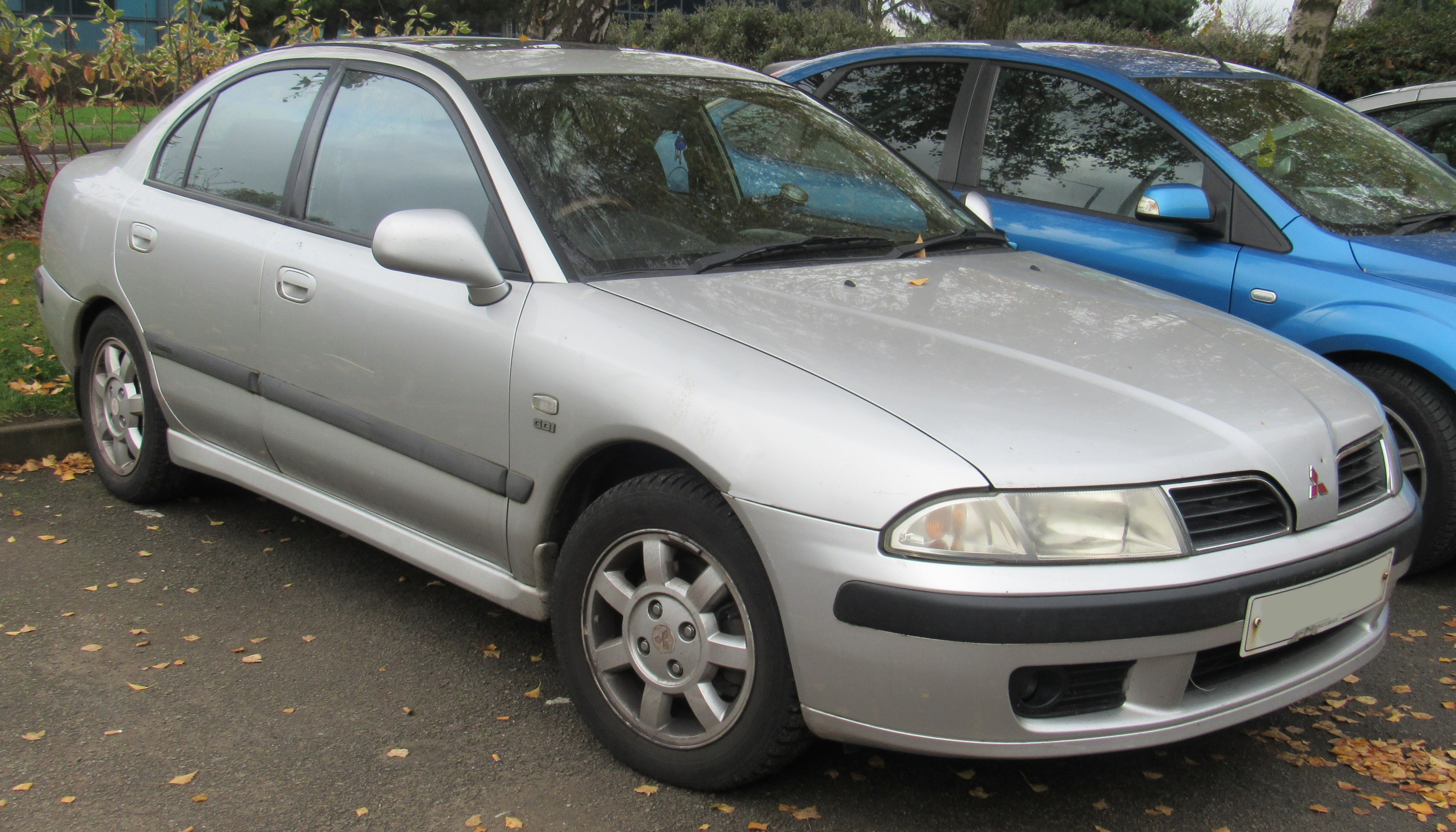 1999 Mitsubishi Carisma Elegance GDi 1.8 Taken in Leamington Spa